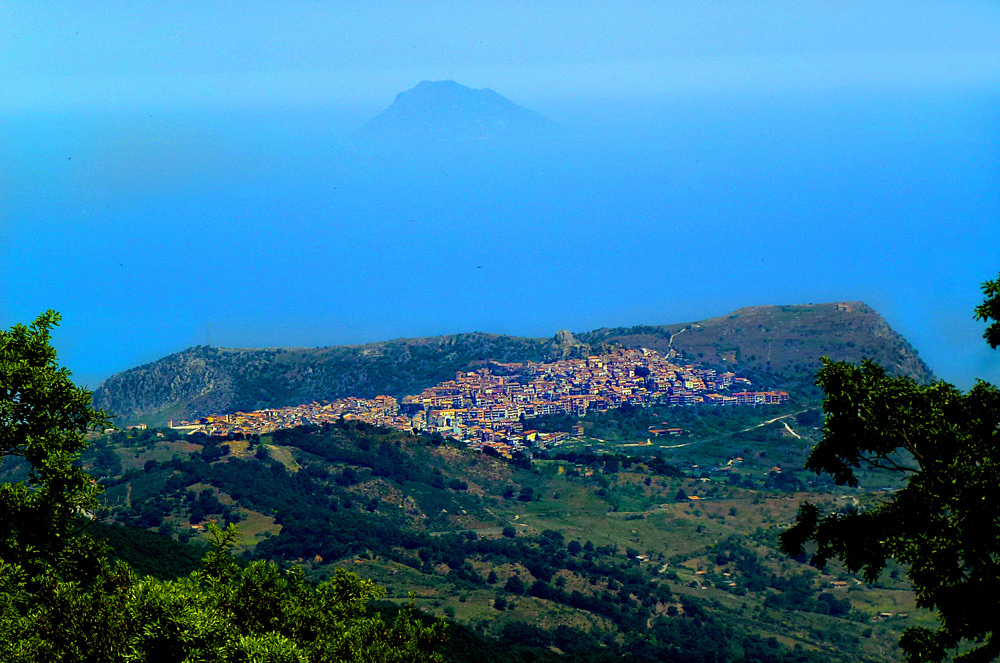 Immagine scattata in Sicilia - San Fratello Corretta in post produzione con Photoshop Grazie per la visita ed i commenti. Picture taken in Sicily - San Fratello Post production corrections were done with Photoshop. Thanks for the visit, comments, awards, invitations and favorites. Please don't use this image on websites, blogs or other media without my explicit permission. © All rights reserved